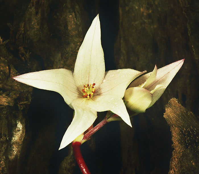 Heliamphora pulchella flora